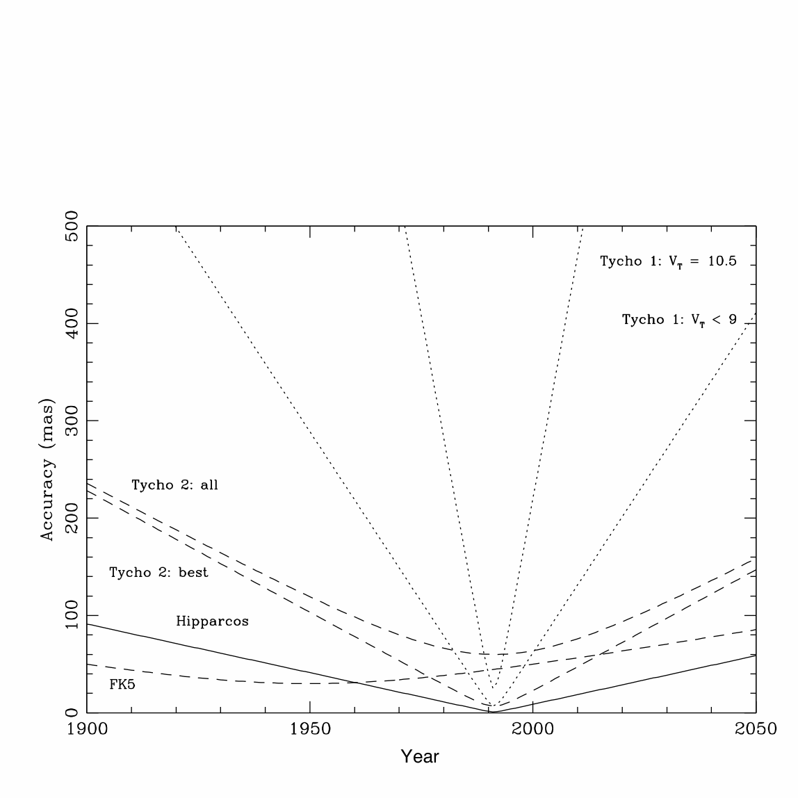 Hipparcos satellite: accuracy versus time